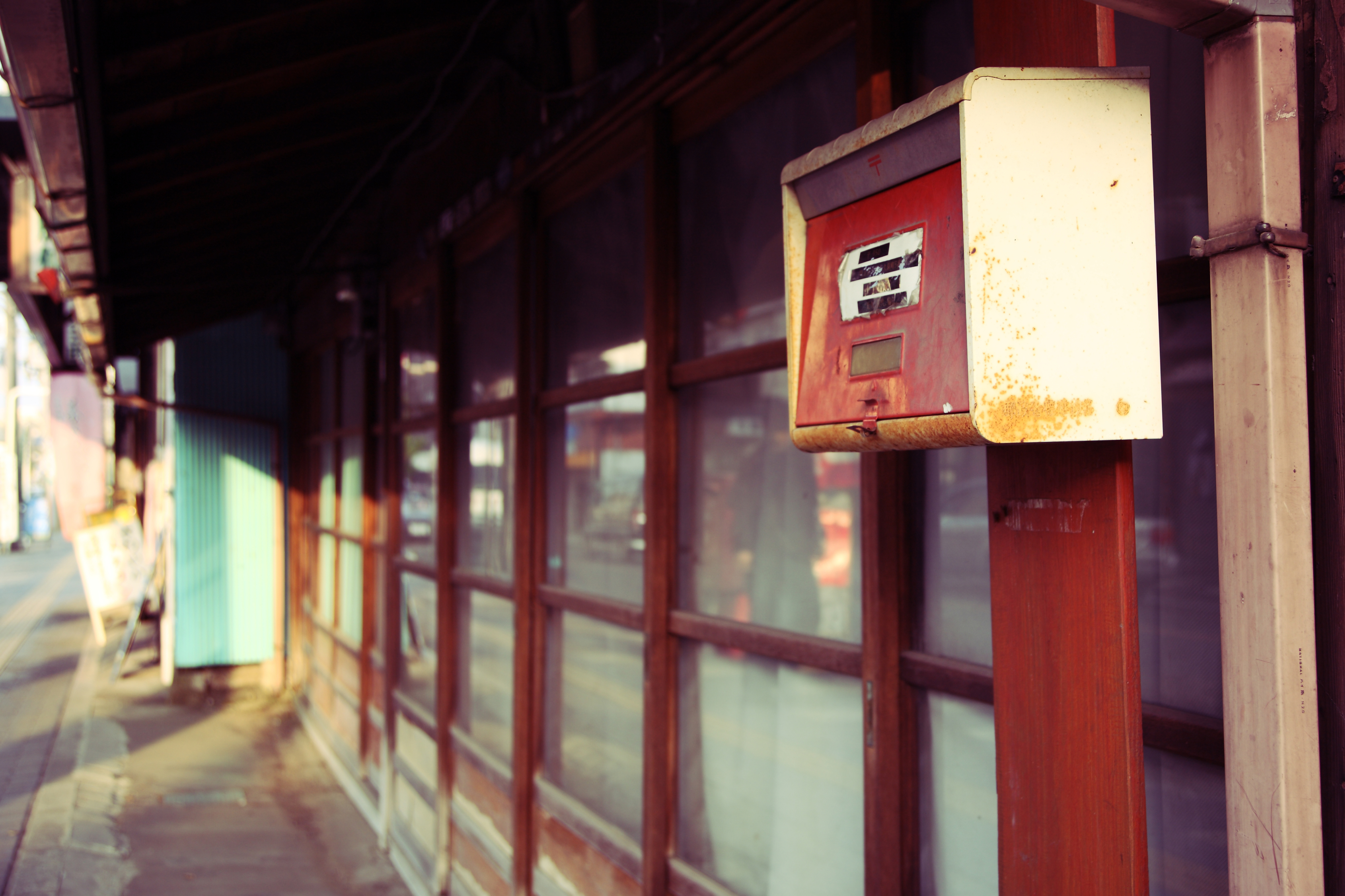 An old letter box used in Kawagoe, Saitama.